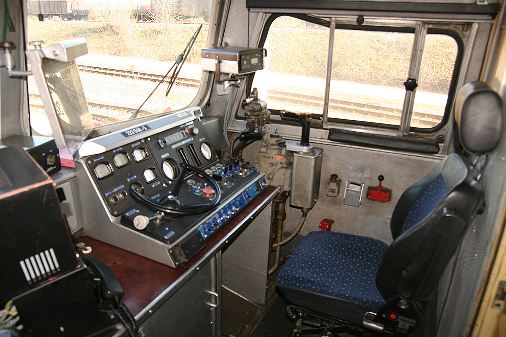 The driver's cab of DB 233 040